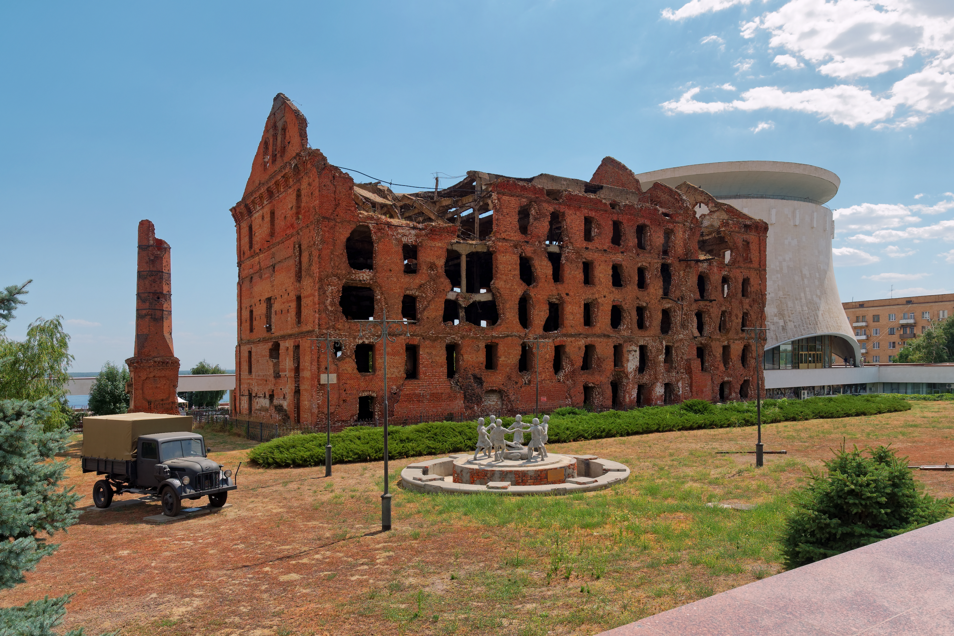 Volgograd. Memorial museum-panorama "The Battle of Stalingrad"